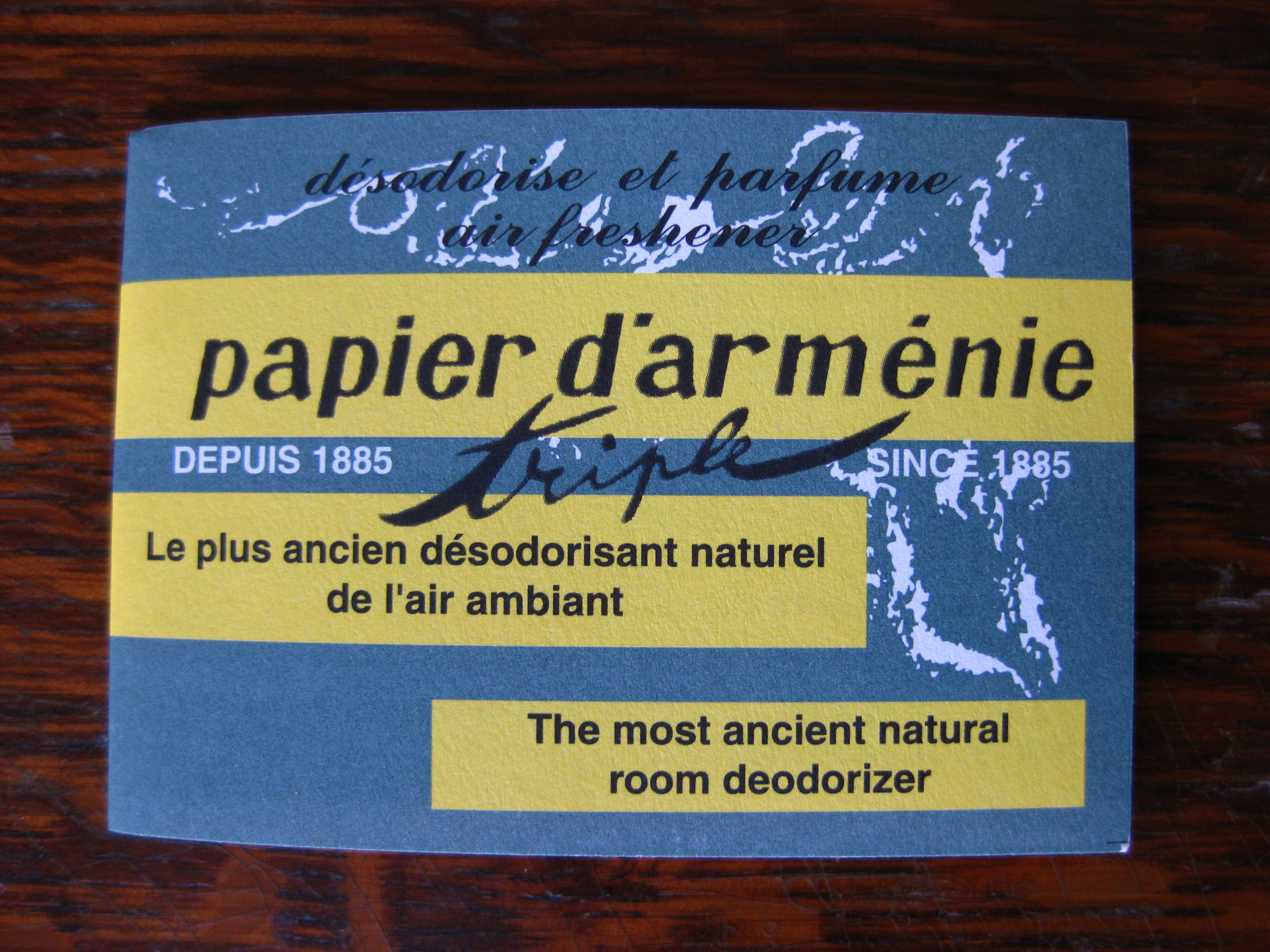 A booklet of Papier d'Armenie incense paper.